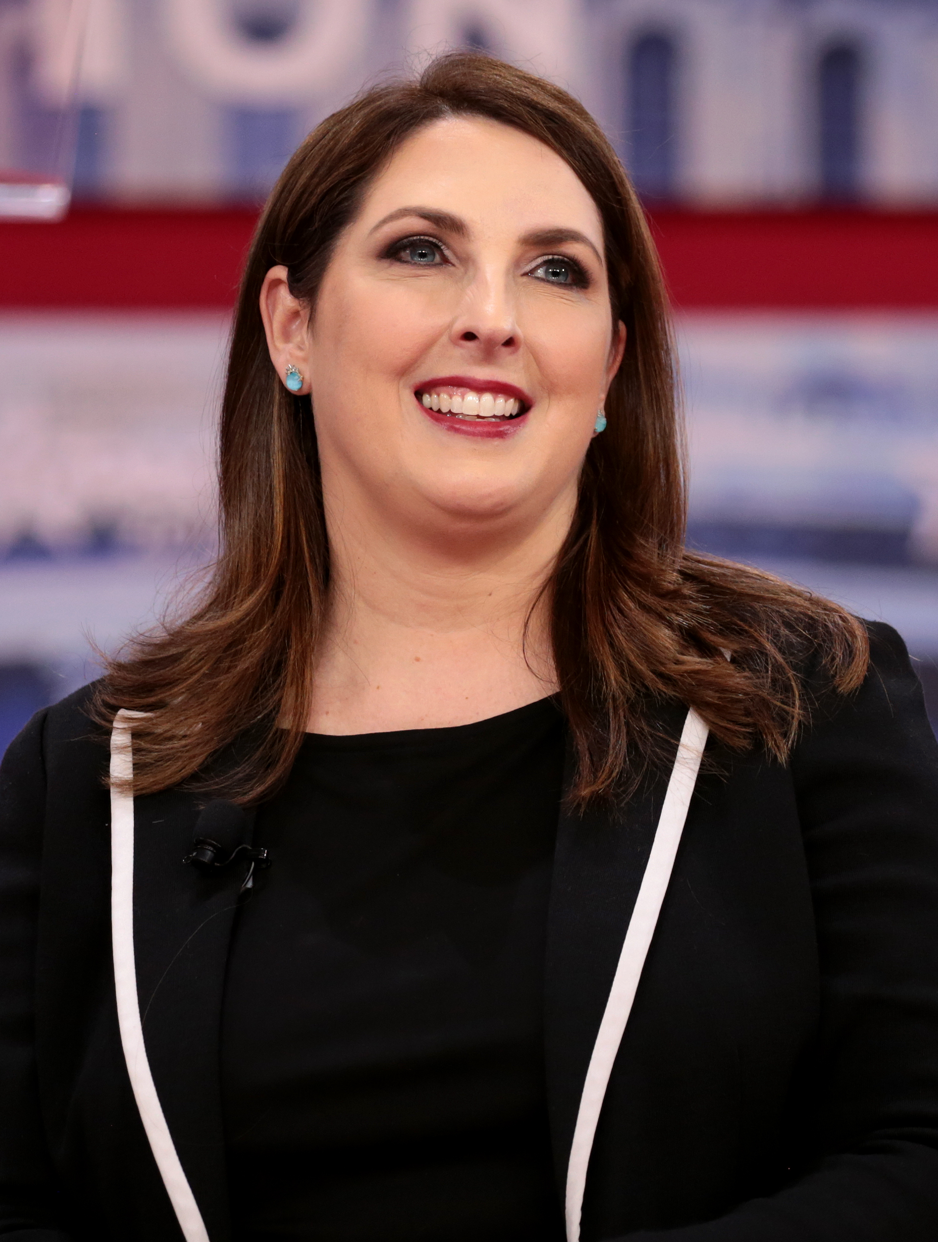 Ronna McDaniel speaking at the 2018 CPAC in National Harbor, Maryland.